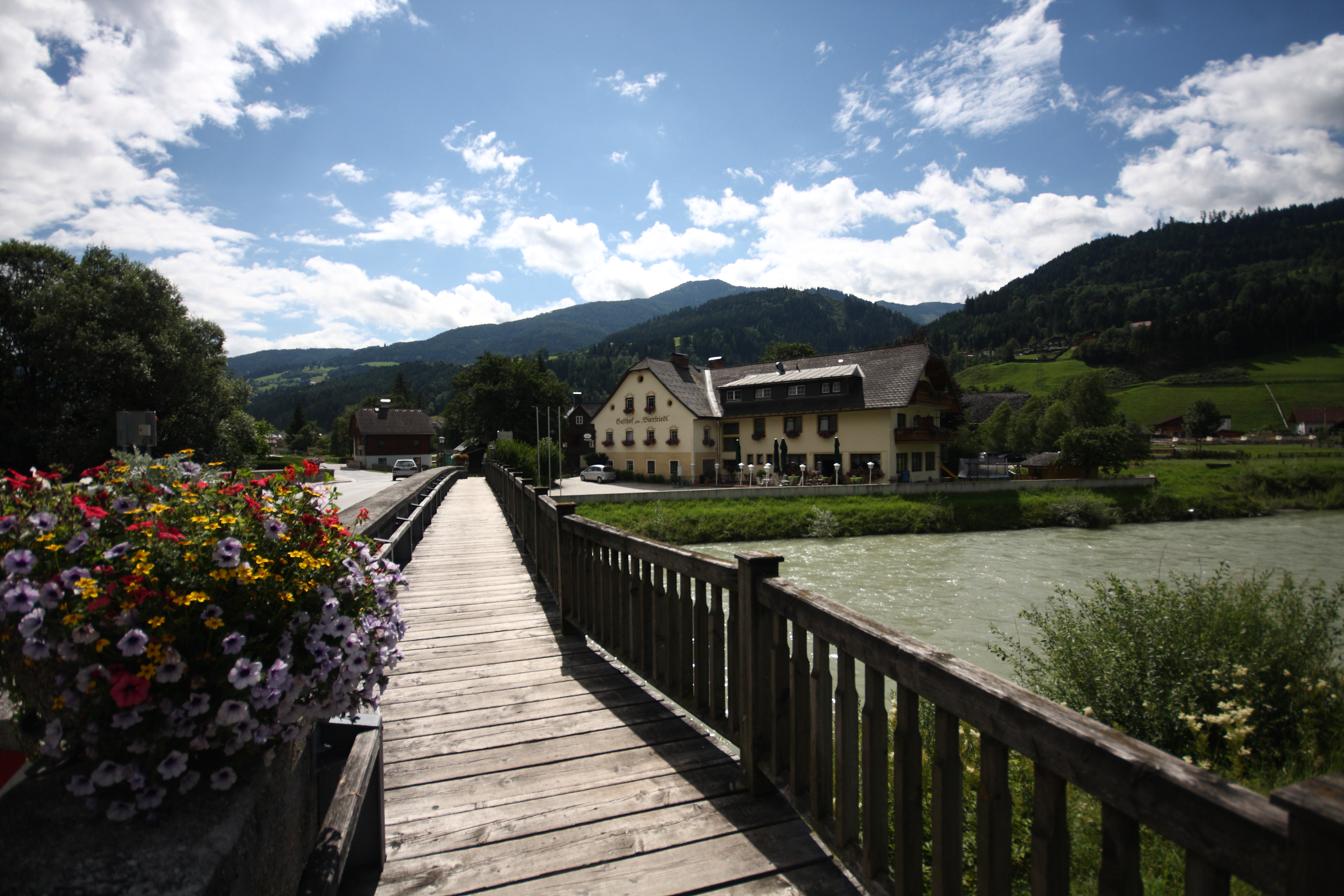 Pruggern, Austria, Styria